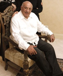 My Grand Father Heshmat Mohajerani in 2006 in his house.